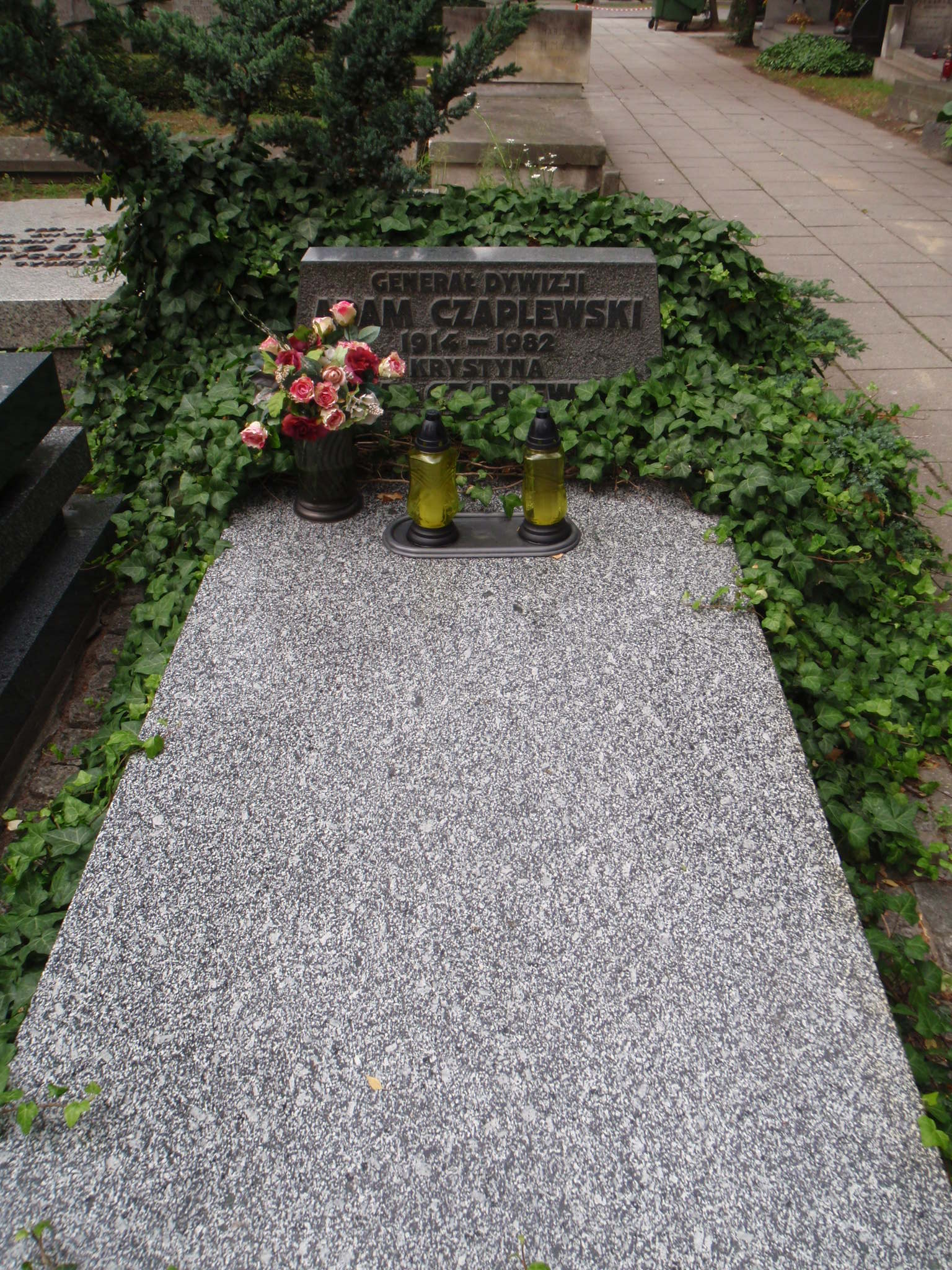 Grave of Adama Czaplewski